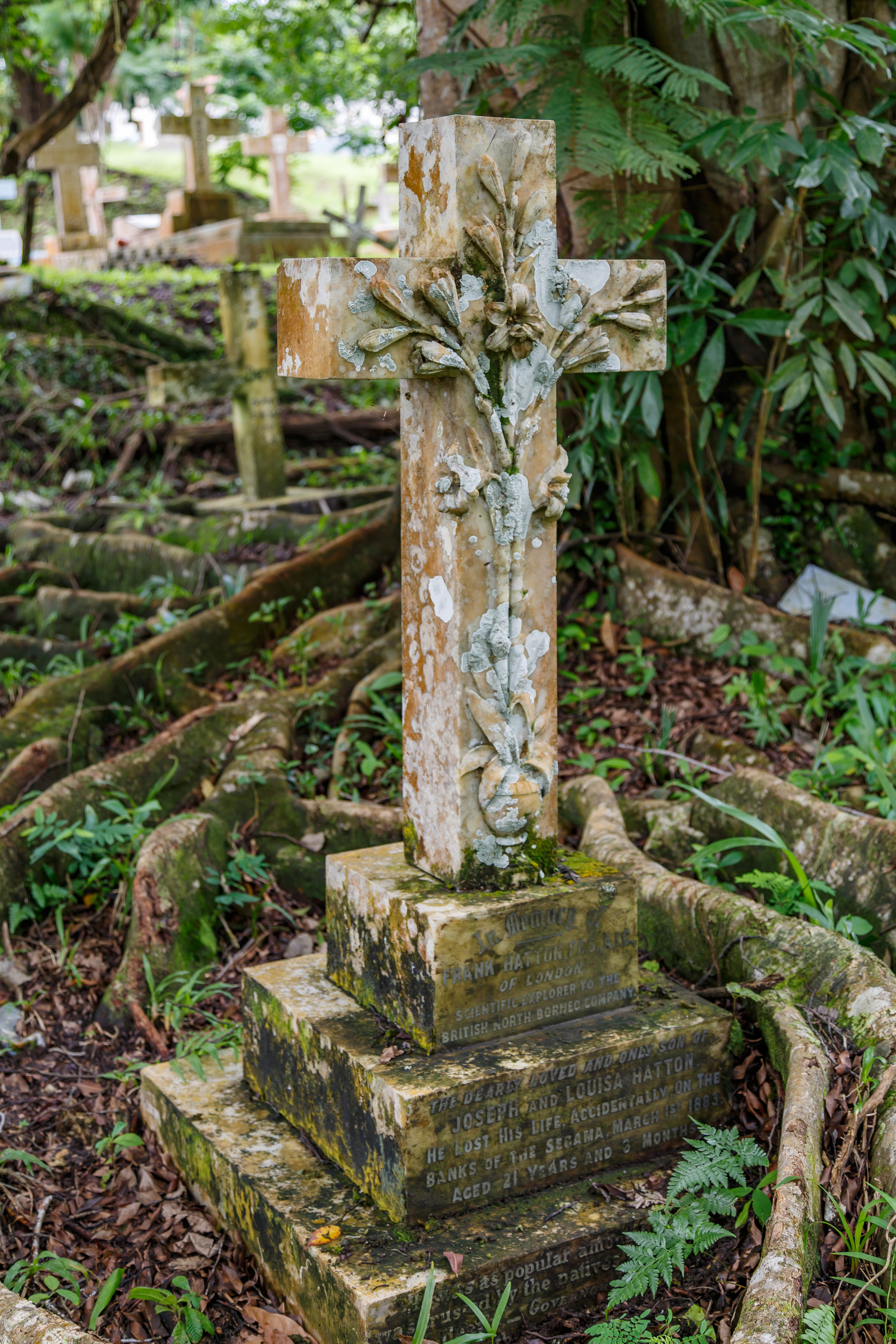 Sandakan, Sabah: The tombstone of Frank Hatton